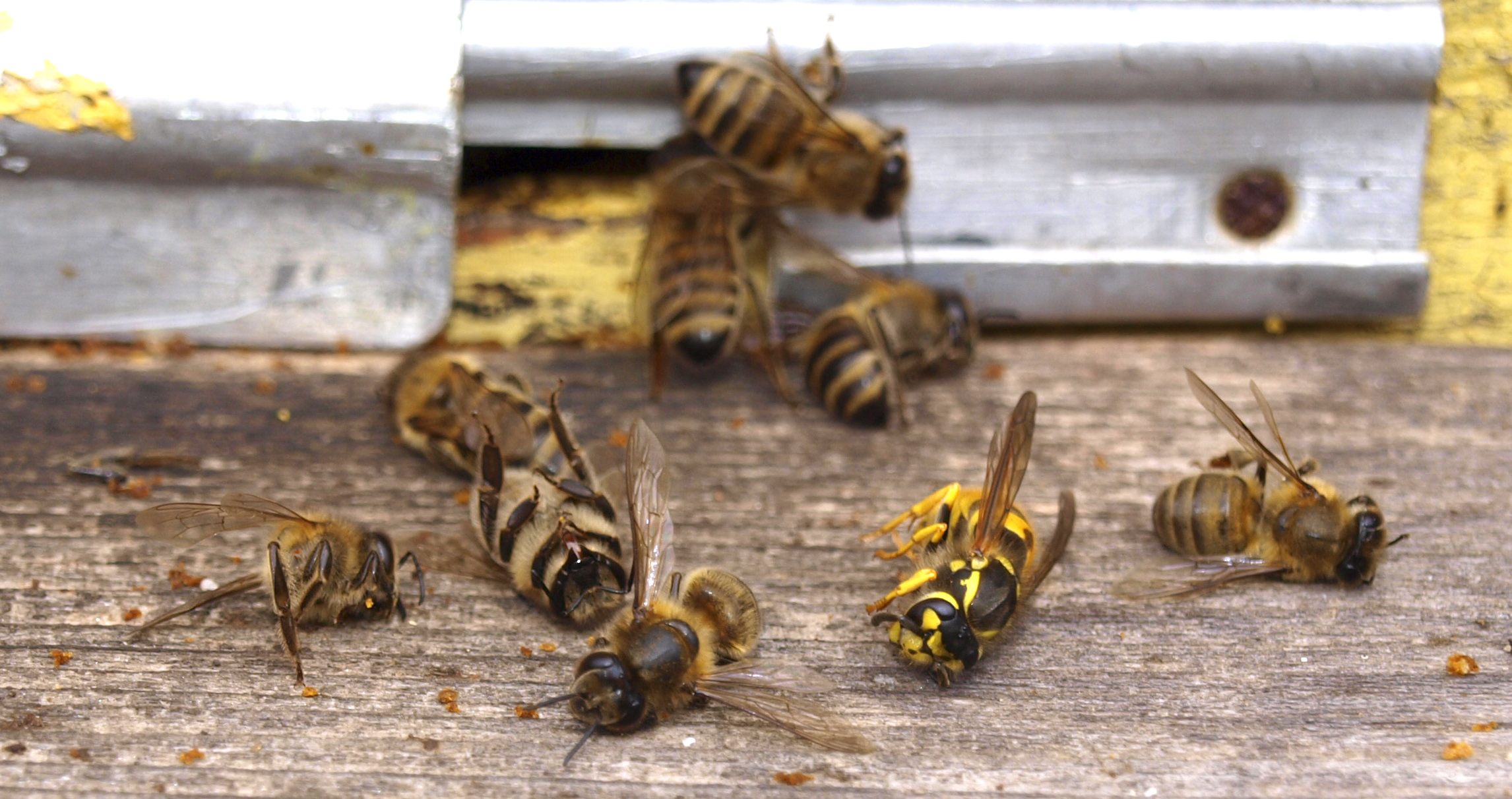 Honey bees defend against wasp attacks